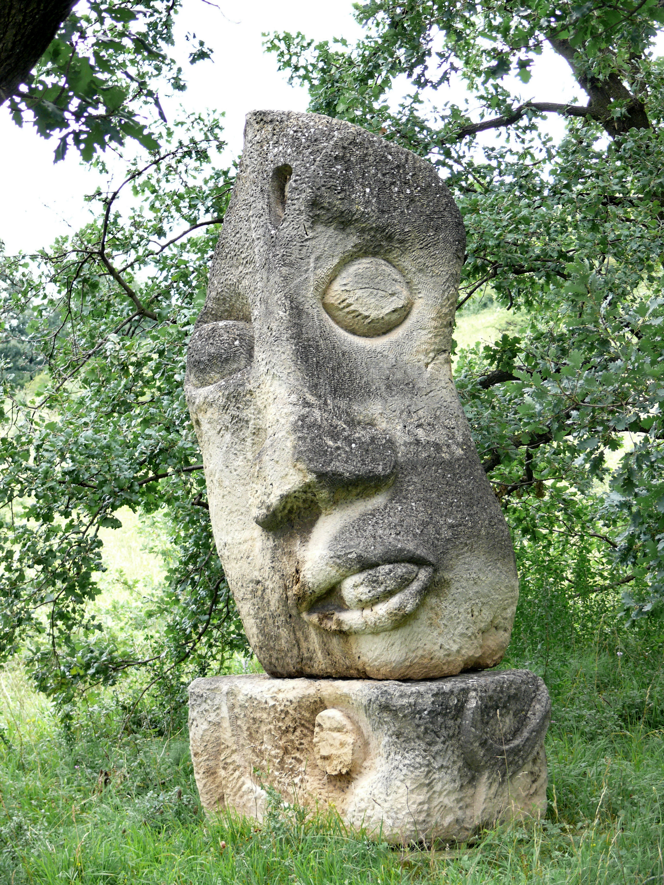 Sculpture Goliath (1961) made by ACHIAM at an international symposium in Römersteinbruch in St. Margarethen near Lake Neusiedl / Burgenland / Austria / EU.